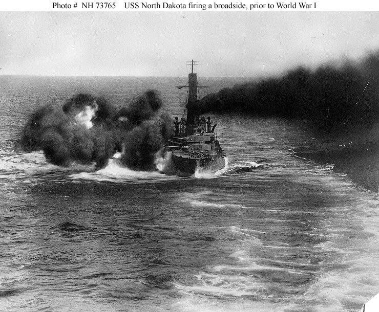 USS_North_Dakota_(BB-29) firing a broadside during gunnery maneuvers before World War I